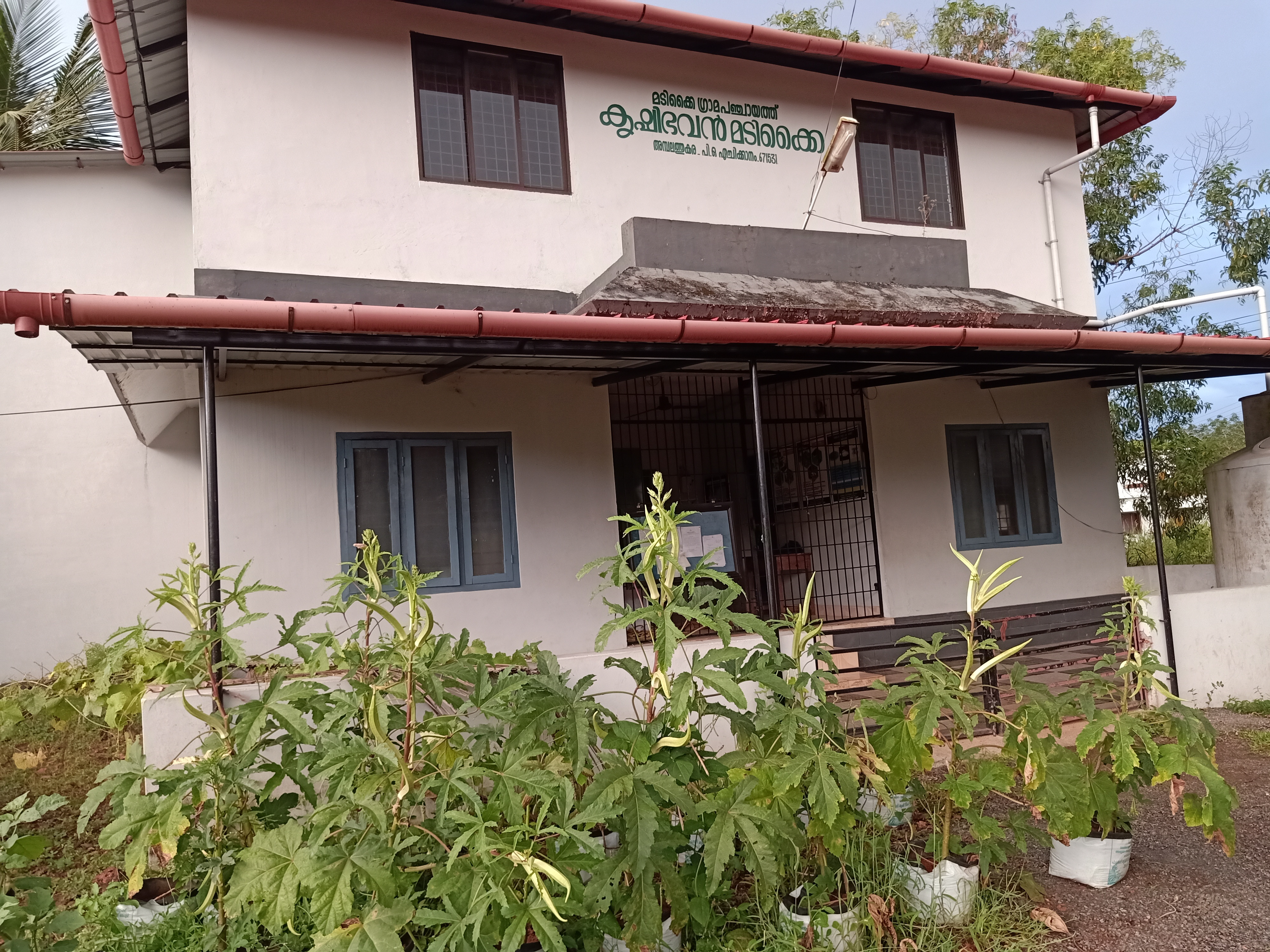 Krishi bhavan at Madikai Ambalathukara